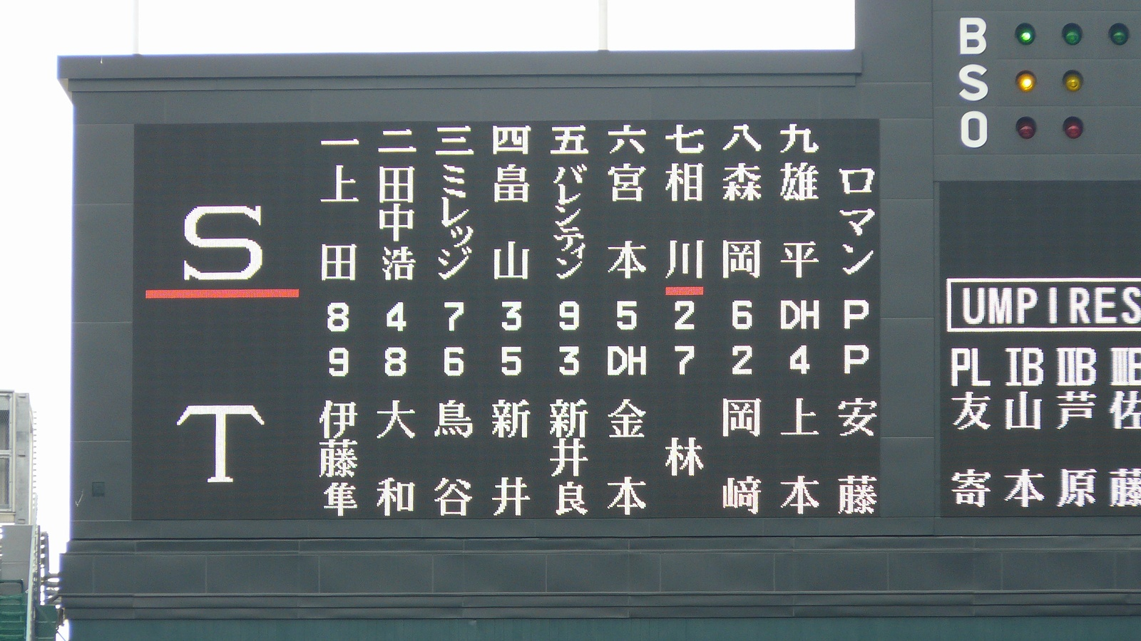 Hanshin_Koshien_Stadium5